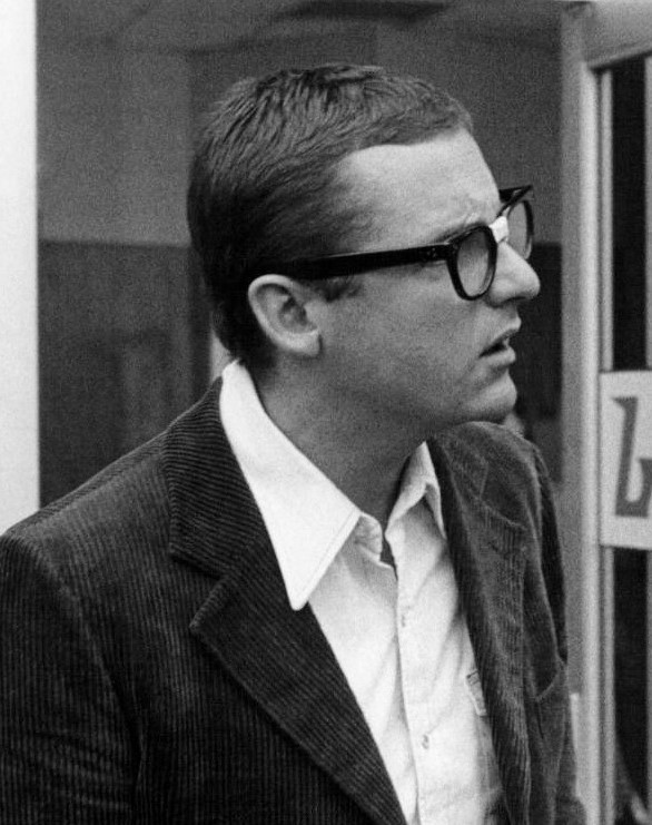 Photo of James Whitmore, Jr. as Freddie Beamer from the television program The Rockford Files. Whitmore's character appeared on the program periodically as an auto mechanic who dabbled in being a private eye.